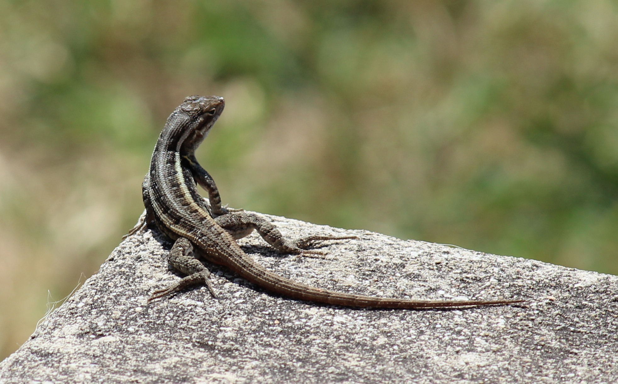 Sceloporus variabilis marmoratus or Texas Rose-Bellied Lizard, male, back